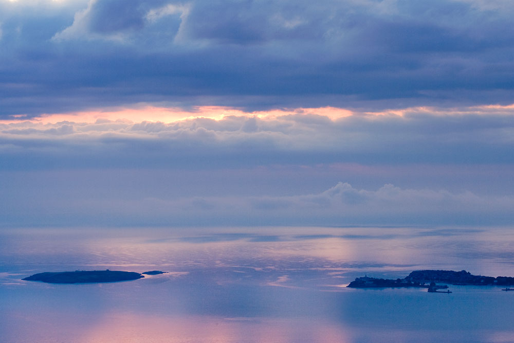 Bulgarian Black sea islands Ivan, Petar and Kirik at sunrise time. As seen from Bakurluka.